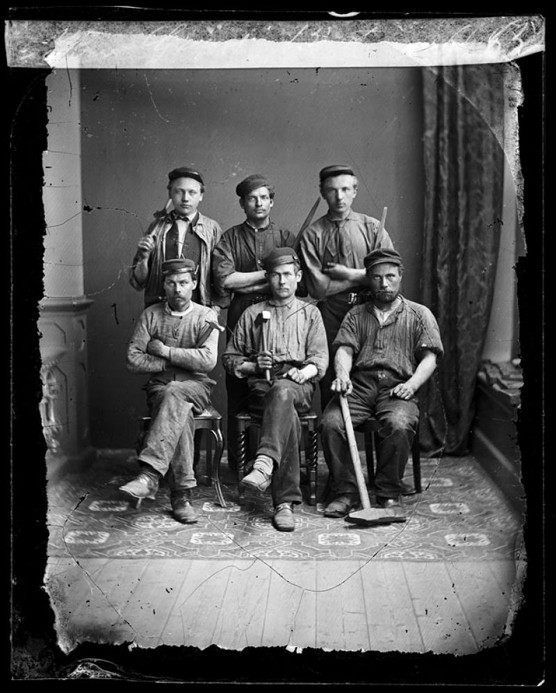 Group portrait, Stockholm 1865-1875.